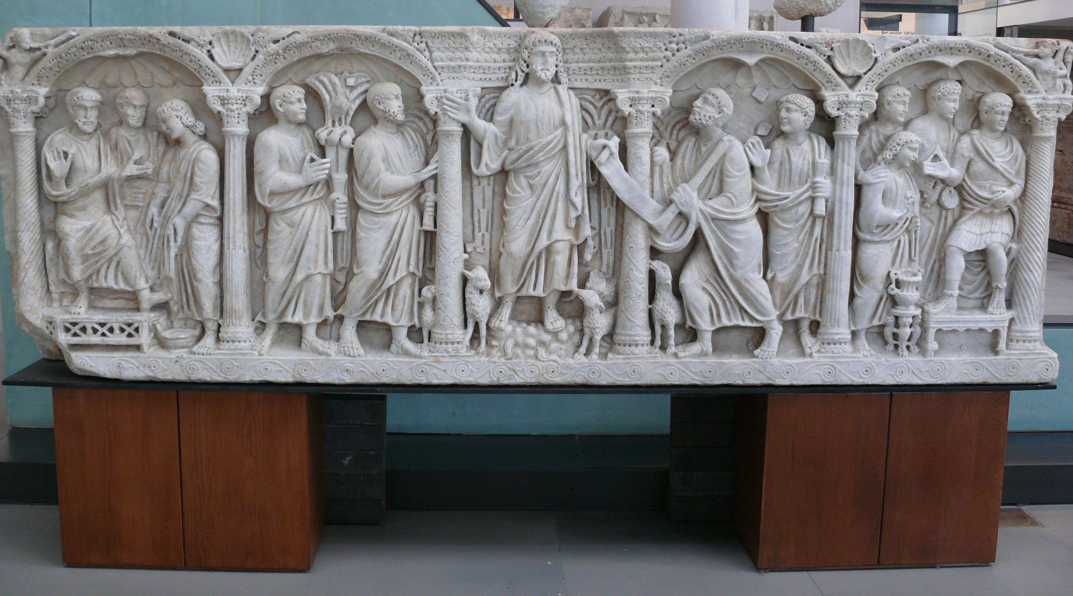 Sarcophagus depicting the the law delivered to Saint Peter. Carrara marble. Provenance:Alyscamps. End of the 4th century. Musée de l'Arles et de la Provence antiques FAN.92.00.2487